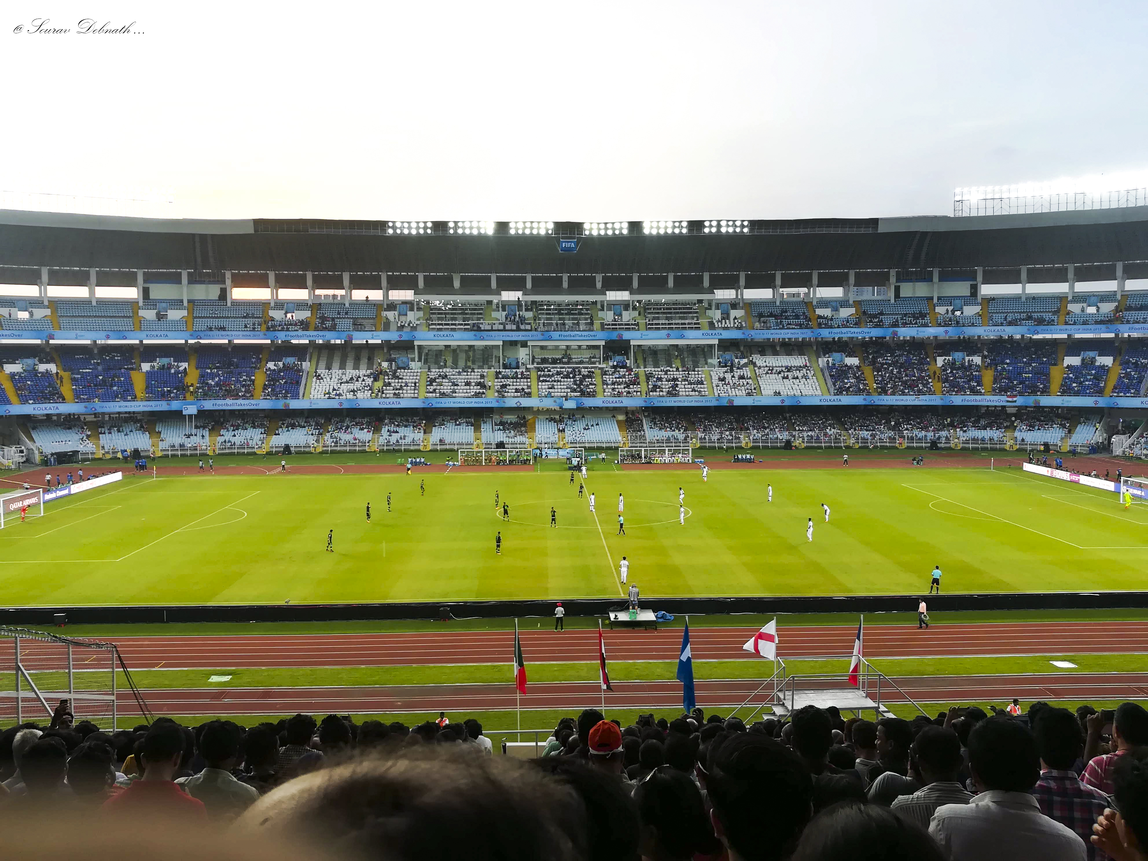 Salt Lake Stadium during FIFA U17 World Cup 2017 ...